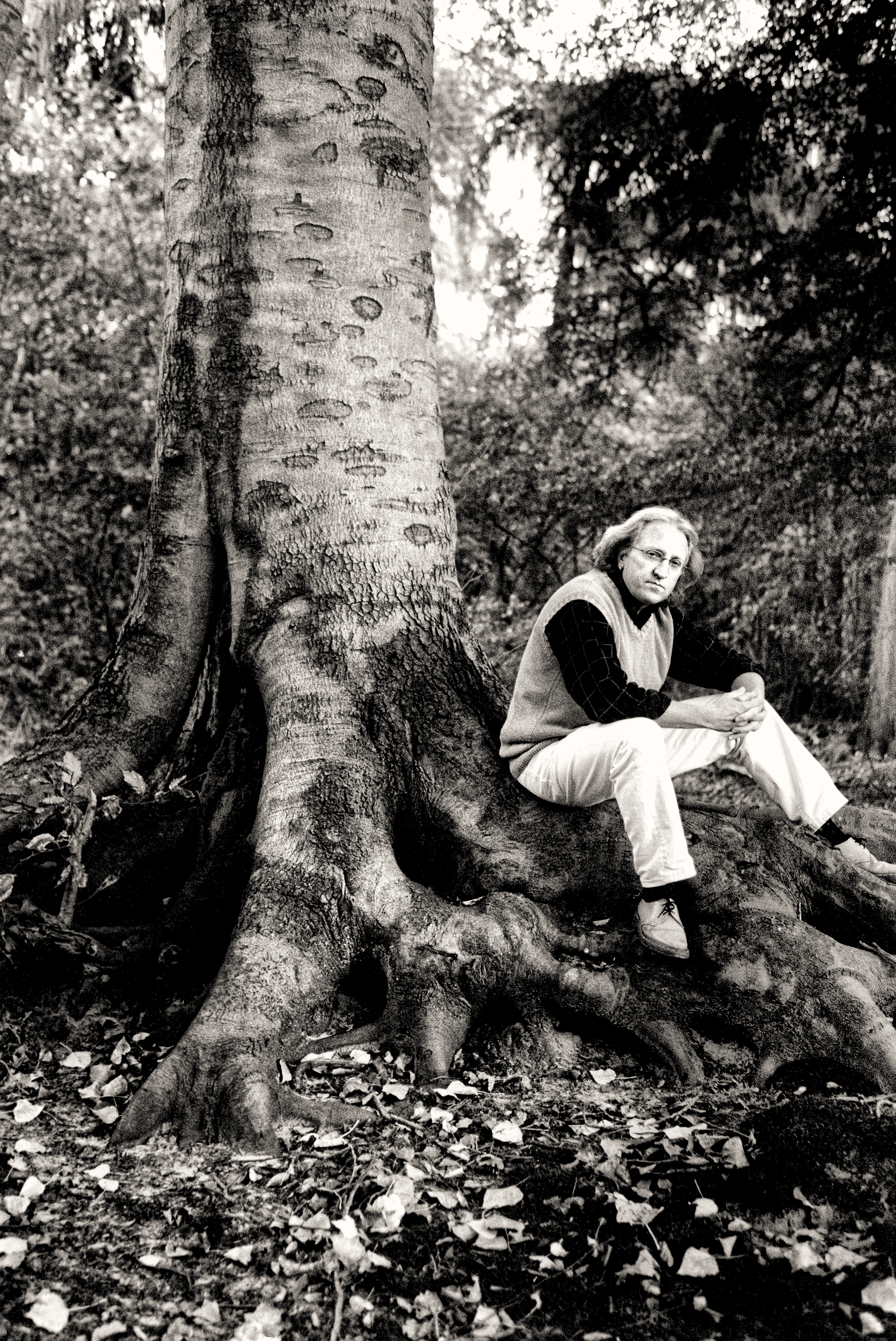 Marc de Bel (Kruishoutem, May 7, 1954) is a Flemish youth author.